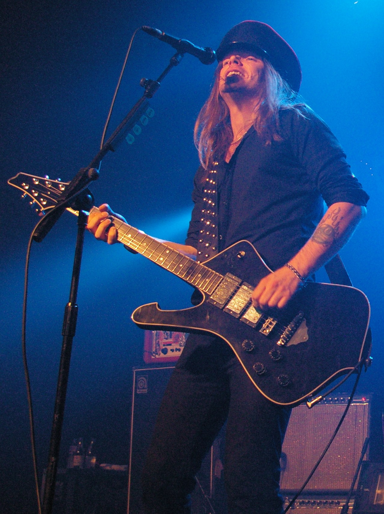 Nick 'Royale' Andersson from The Hellacopters performing live